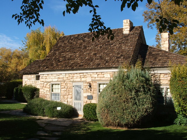 Wallace Blake House, South of St. George St. George